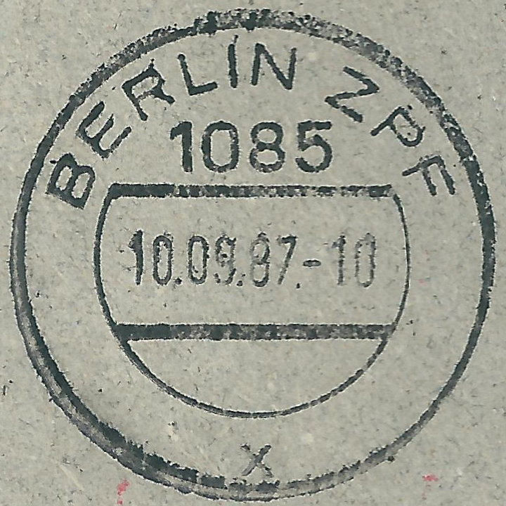 Postmark of ZPF (central post and telegraph office), Berlin, GDR, 10 September 1987